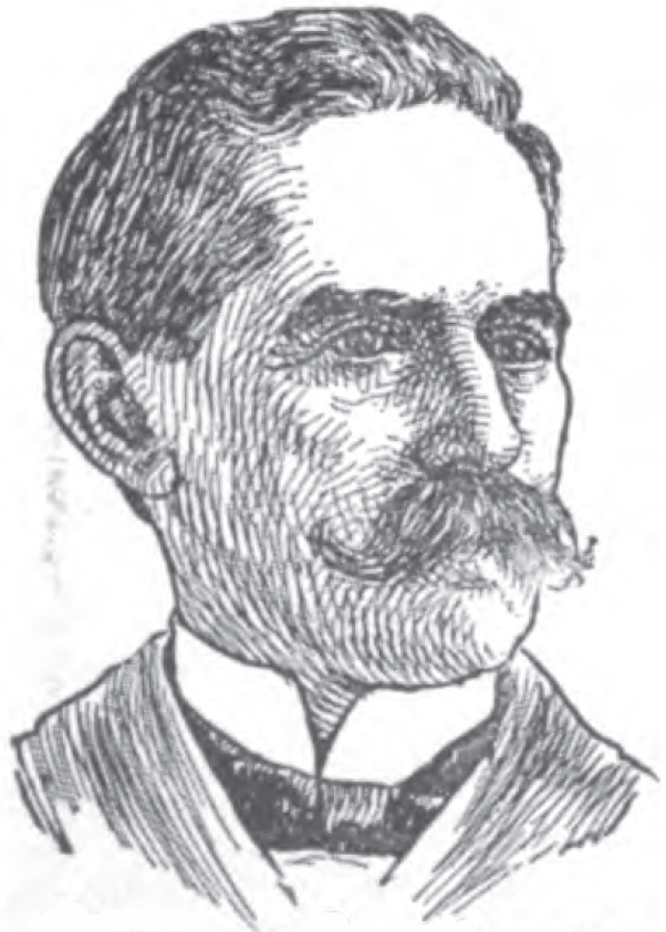 Kentucky Congressman Vincent Boreing